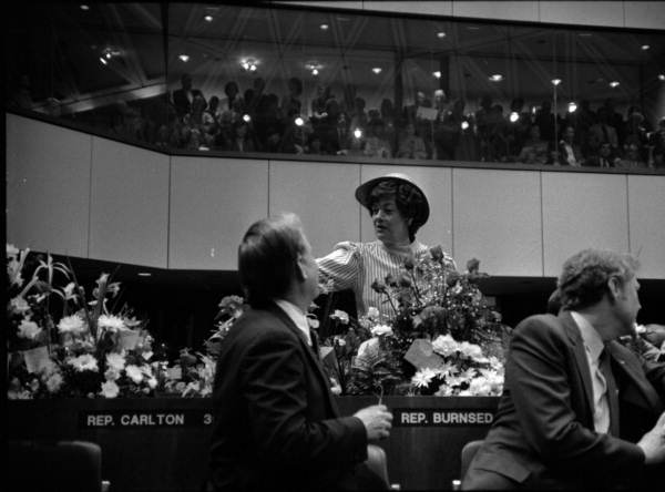 Representative Beverly Burnsed during opening day of the Legislature. - Tallahassee, Florida .